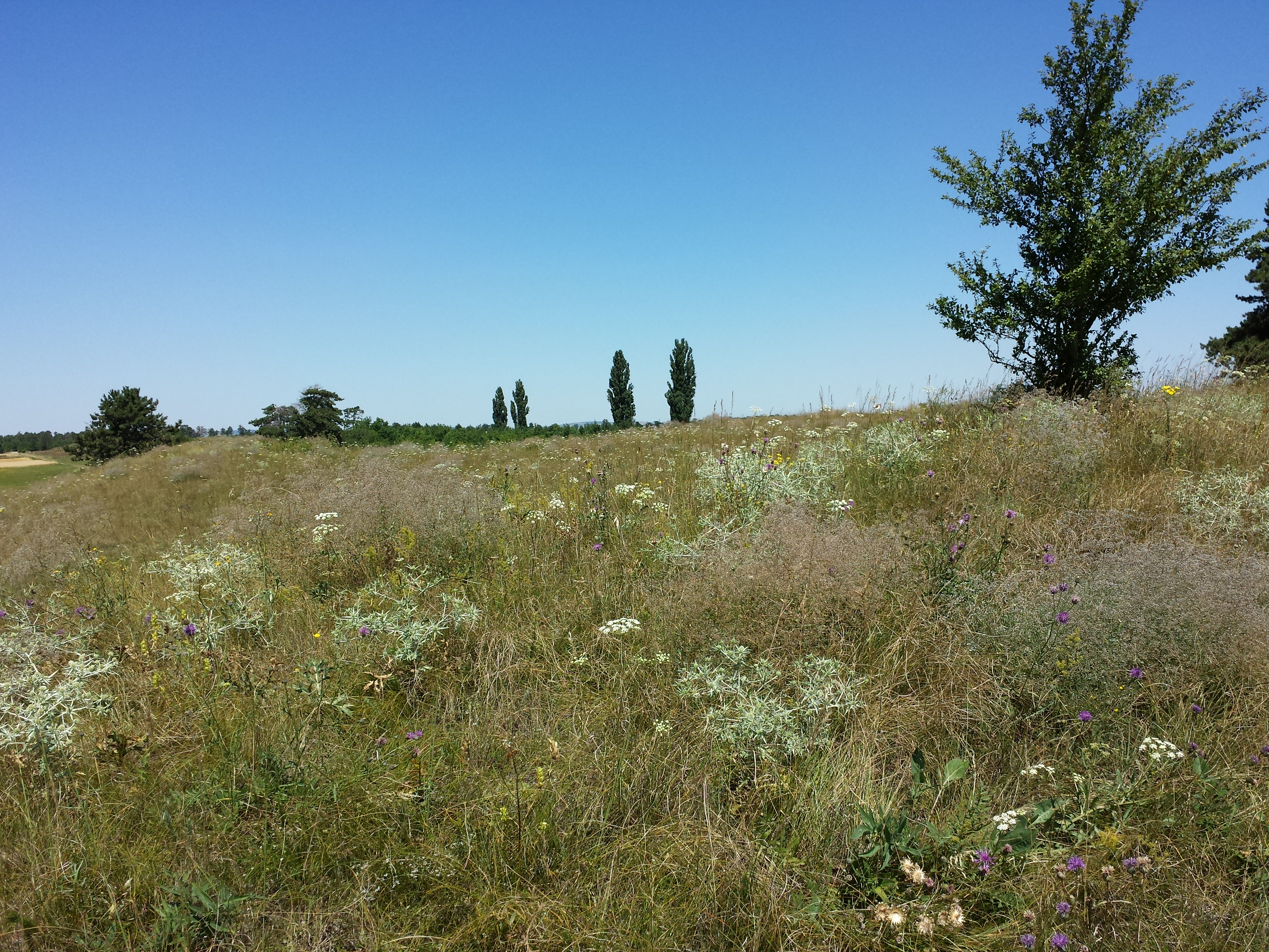 Nature reserve Sandberge Oberweiden View from sand hill in a westward direction